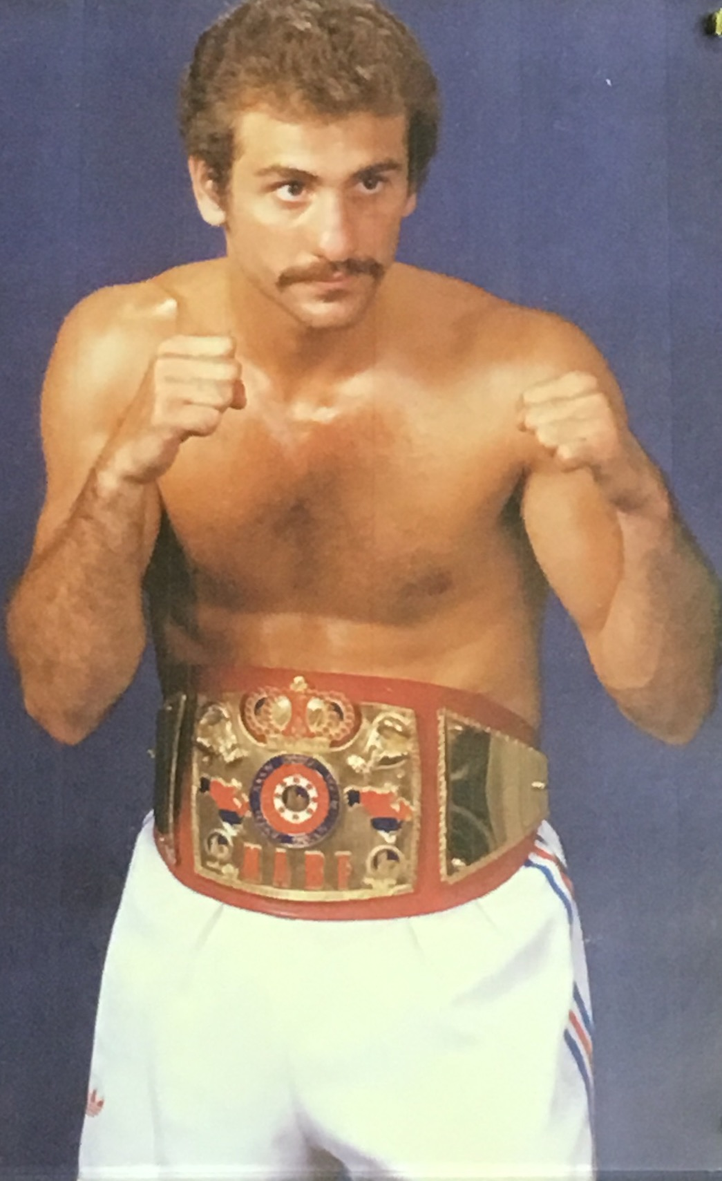 Rocky Fratto wearing NABF Championship belt